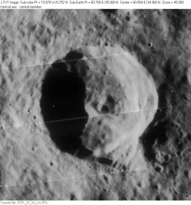 Bernoulli crater on the LRO image LO-IV-191H